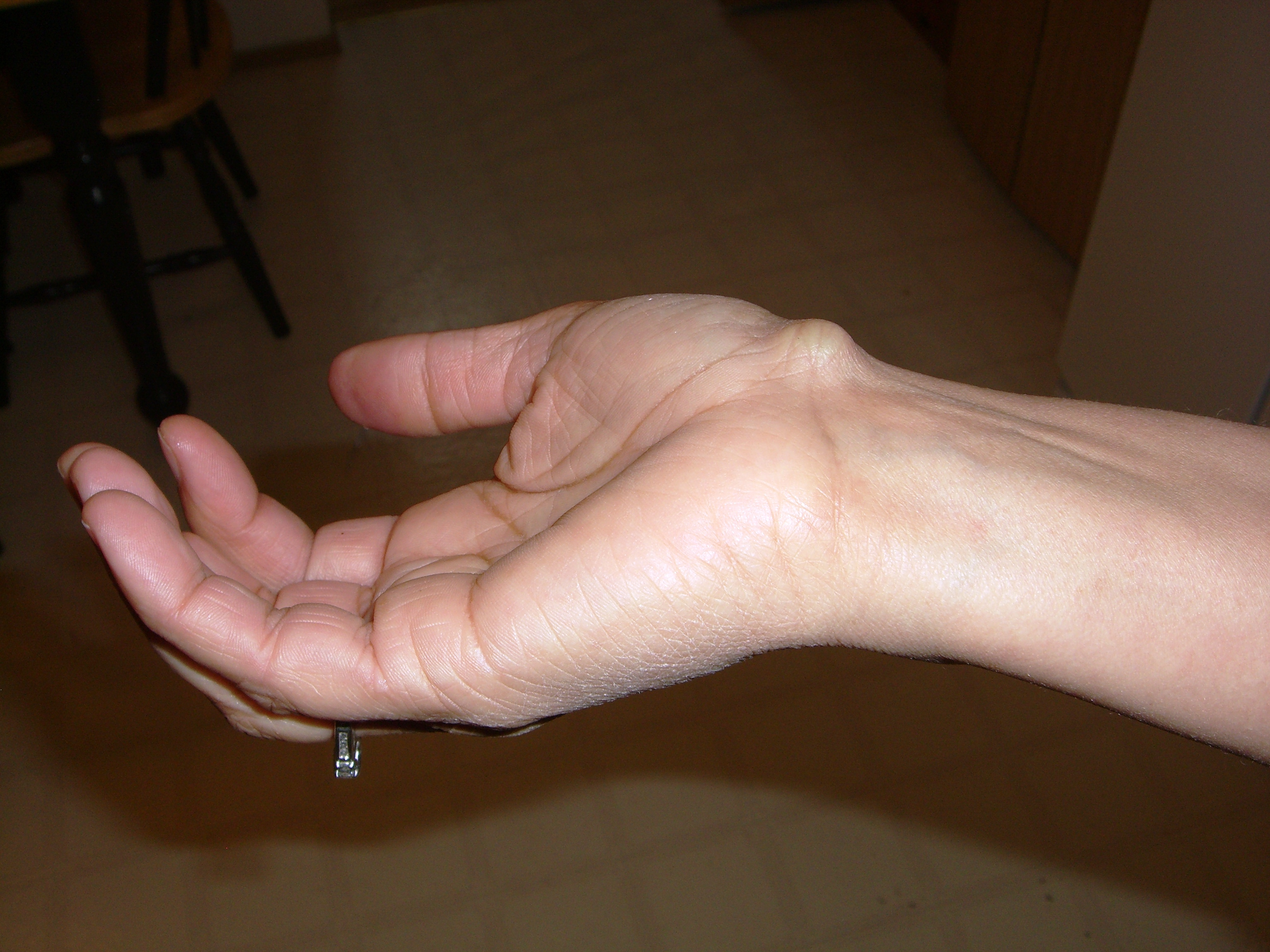 This is a ganglion cyst on the inner right wrist of a 47 year old female.